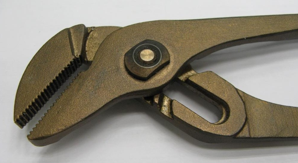 Tongue-and-groove pliers made from berillium-copper alloy. Strong, non-sparking, non-magnetic, corrosion resistant.